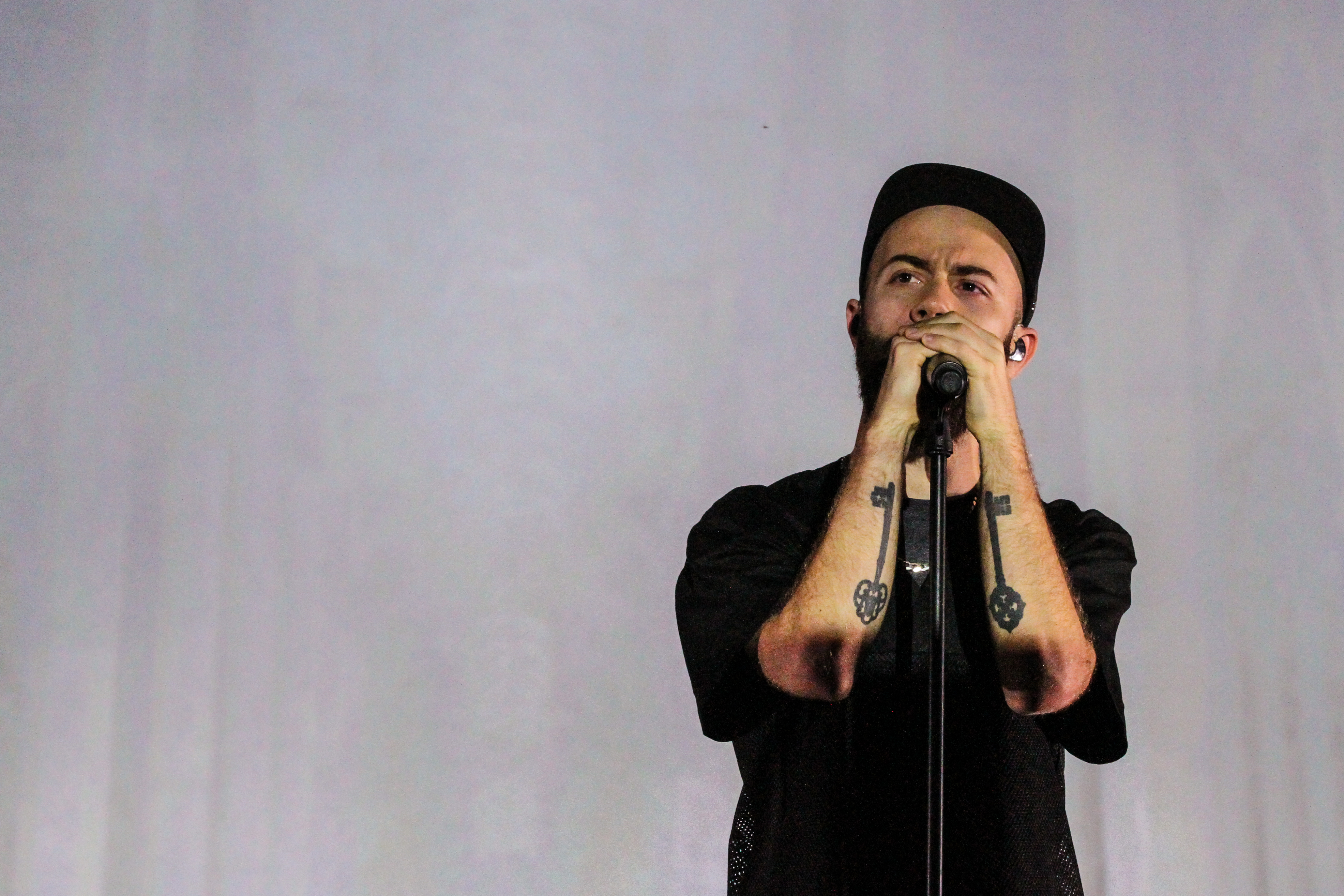 Woodkid performing at Melt! Festival 2013